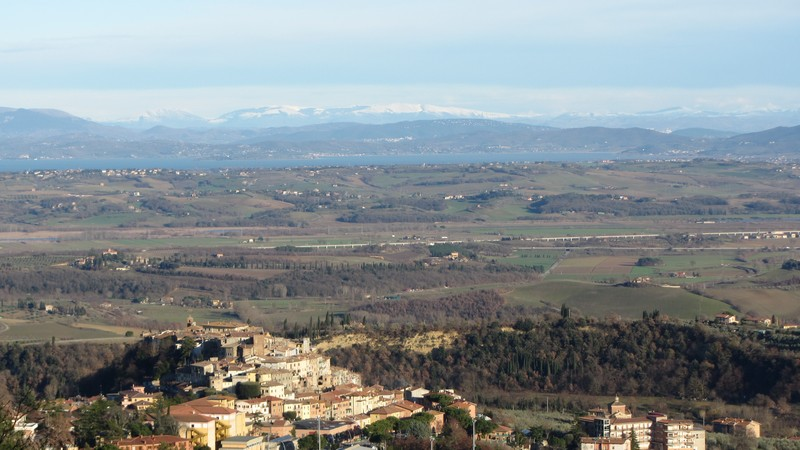 View of Chianciano Terme, the Valdichiana and the Lake Trasimeno